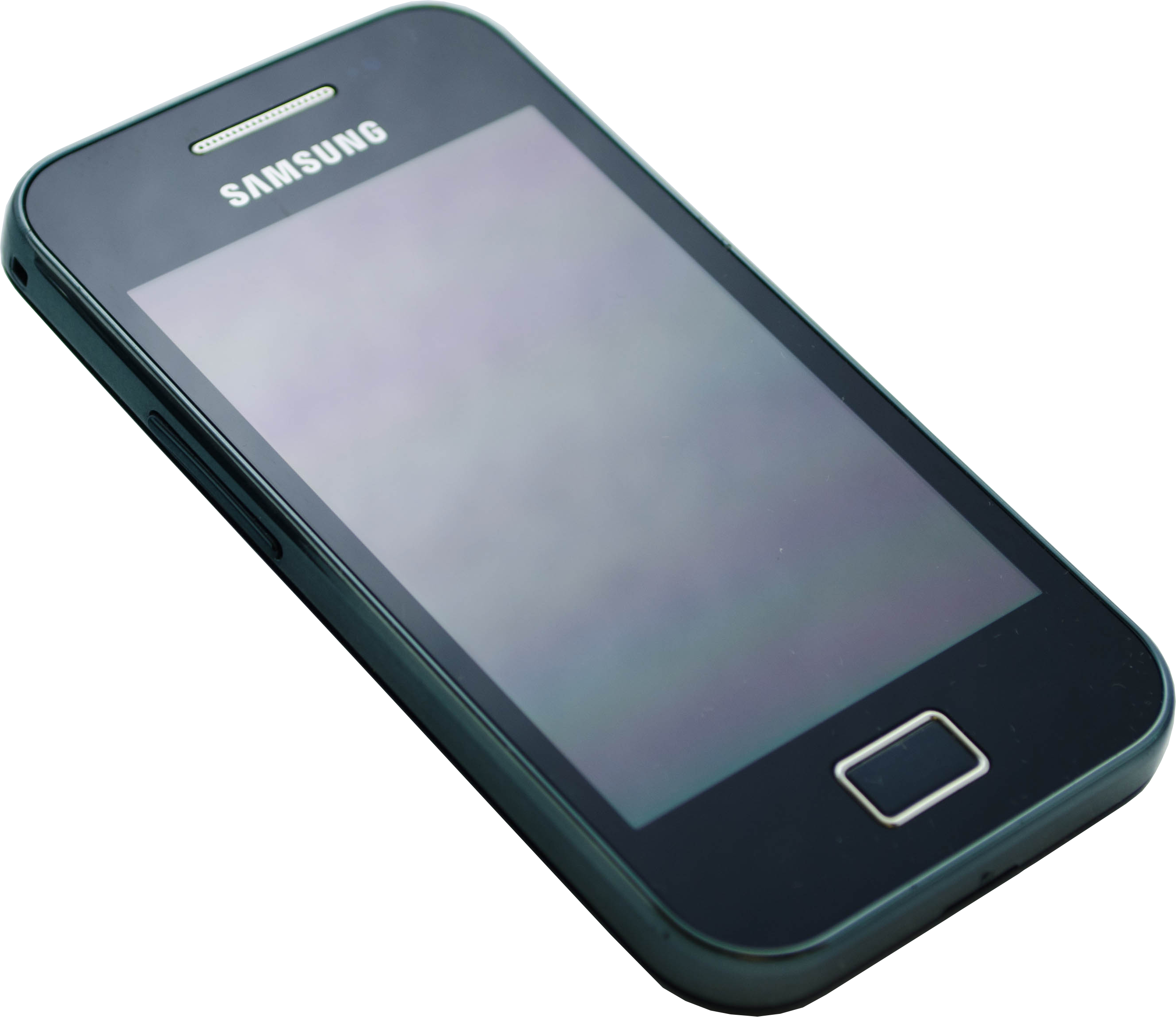 Picture of Samsung Galaxy Ace